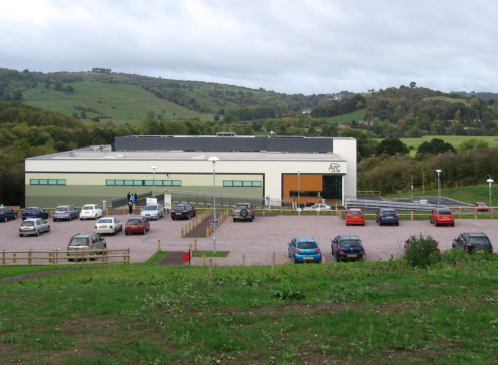 Matlock - pool with a view